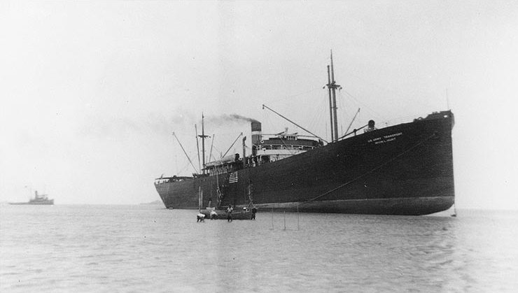 USAT Irvin L. Hunt stranded in the Makassar Strait, 1941. The ship was USS Edenton (ID-3696) in 1918-19 and SS Edenton between the wars.